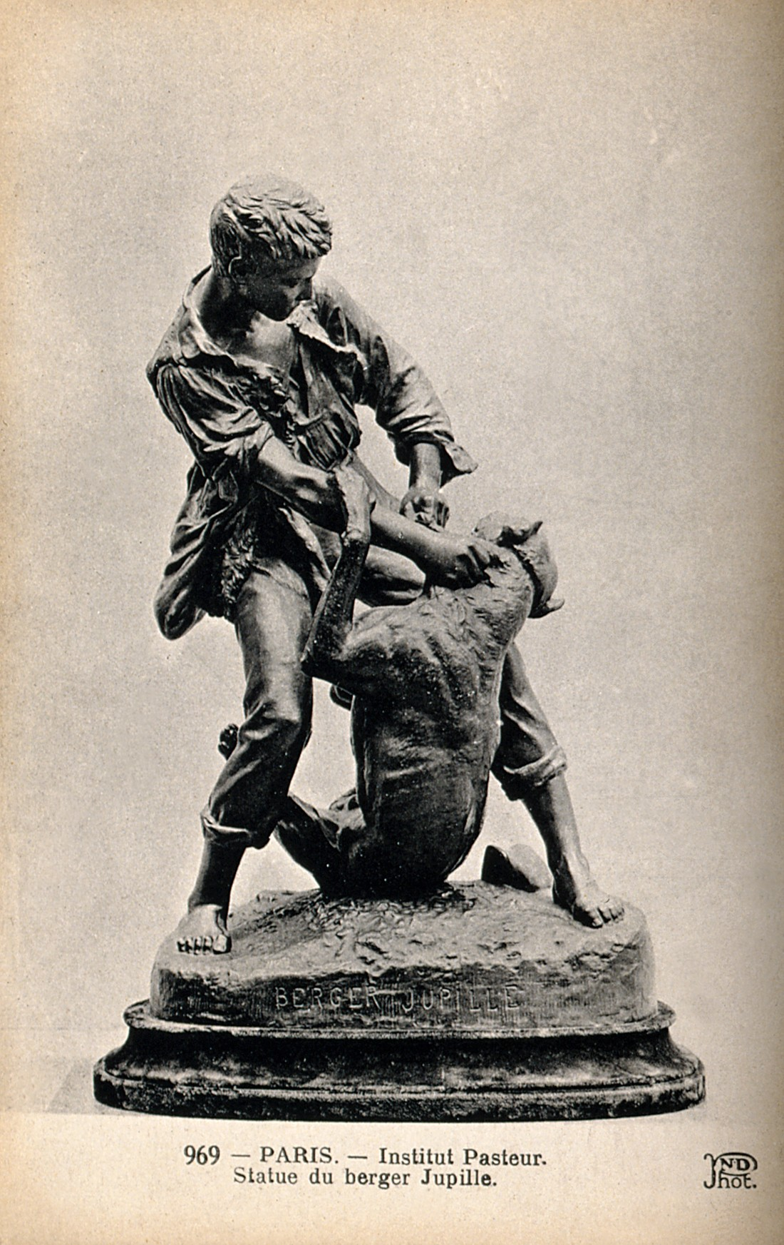 A sculpture of a shepherd boy called Jupille, fighting a rabid dog, who was the first person to be inoculated by L. Pasteur. Iconographic Collections Keywords: Louis Pasteur; Jupille.